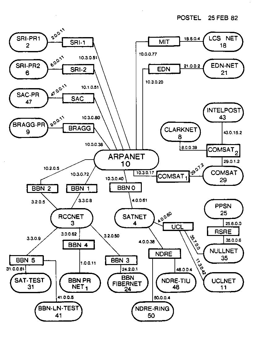 Contemporary map of the entire Internet in semi-production phase (many hosts attached to the ARPANET were still using NCP at this point) in February 1982. The ovals are sites/networks (some sites included more than one physical network), the rectangles are individual routers. No individual hosts are shown. Drawn by Jon Postel of the Information Sciences Institute, under a DARPA research contract as part of Internet development.